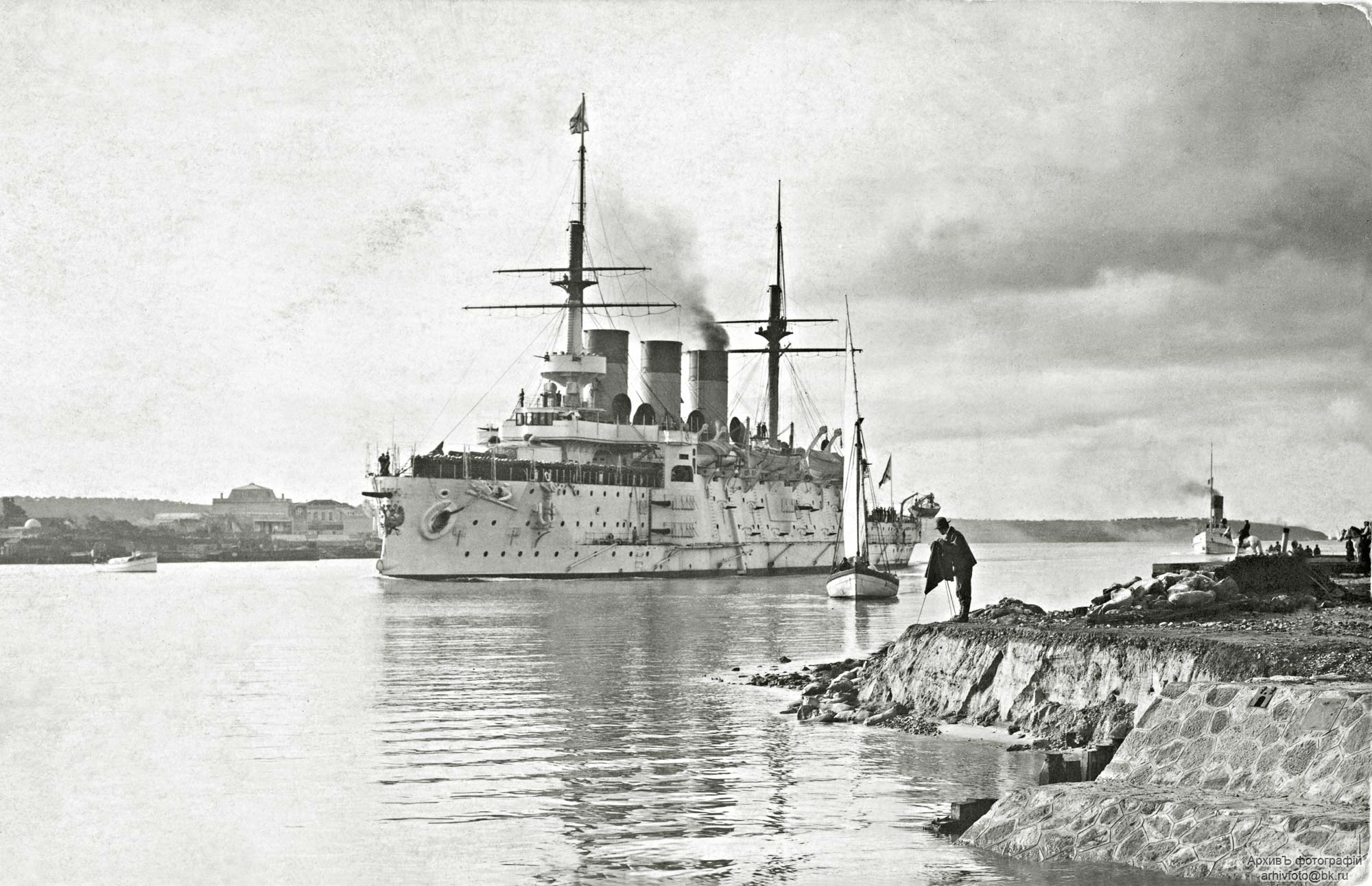 The Russian battleship Oslyabya leaving Bizerte, 9 January 1904